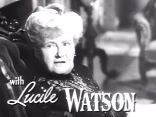 Cropped screenshot of Lucile Watson from the trailer for the film My Forbidden Past.